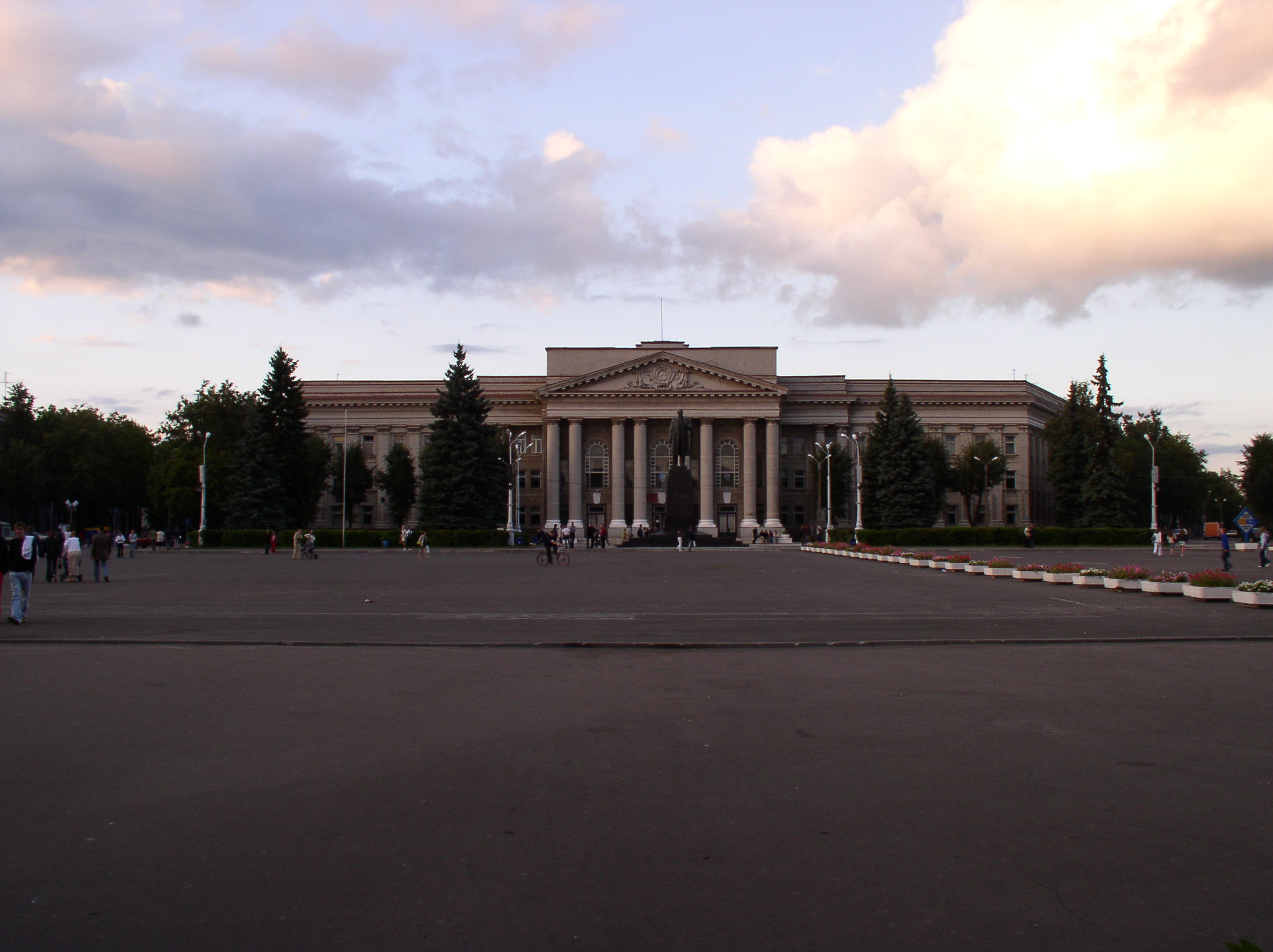 Central Square (former Lenin's Square), Public Polytechnic College, Monument of Lenin in Maladzechna, Belarus